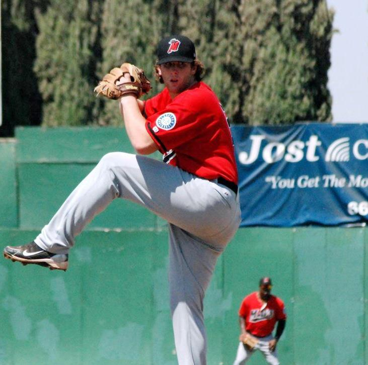 Taylor Stanton, RHP Seattle Mariners Organization 2012